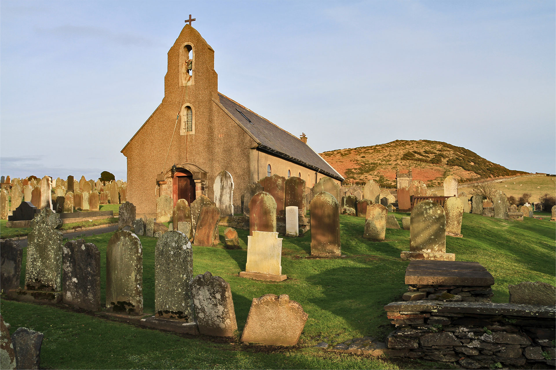 Kirk Maughold The current church goes back to 1000AD to 1100AD, though many alterations and extensions were carried out over the centuries. Much work to modernise the church took place in the early 1900's. At the same time the Maughold Cross House was built. Designed by Armitage Rigby and was the project of PMC Kermode. The finished house was opened in 1906 by the Governor, Lord Raglan.